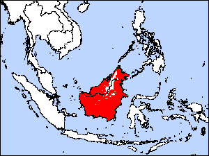 Range of Pitta baudi.